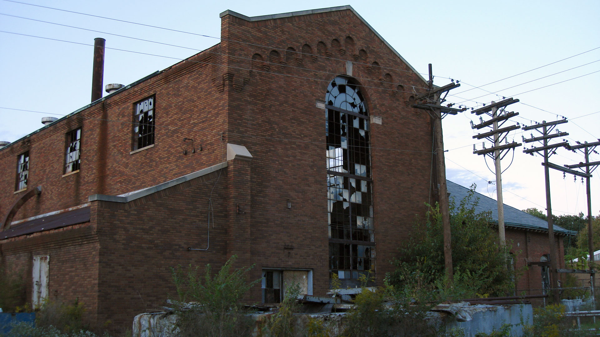 The 1886 Power Plant on the Grounds of Central State Hospital in Indianapolis Indiana.